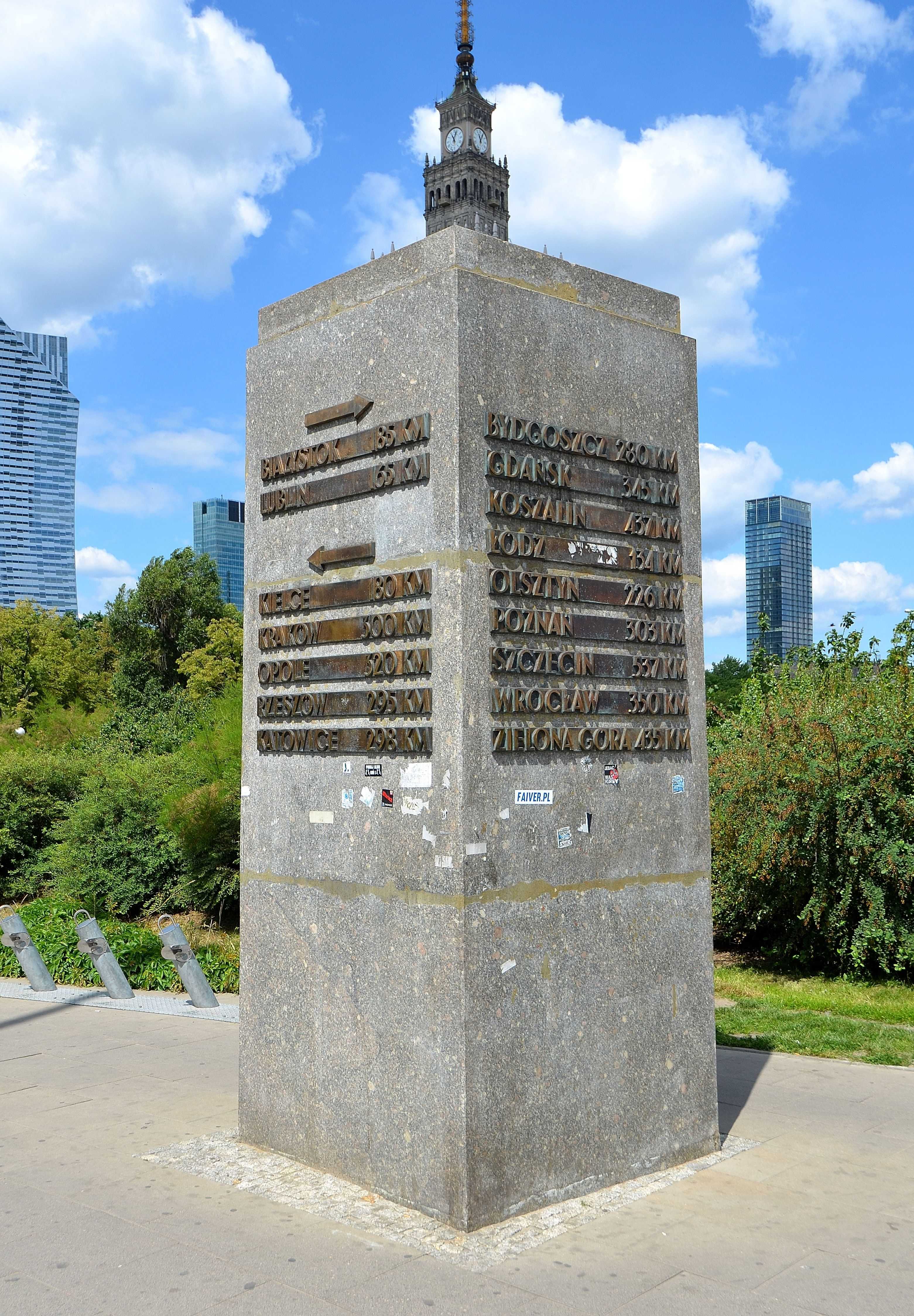 Kilometer pole in Warsaw. Jerozlimskie Avenues near Marszałkowska Street